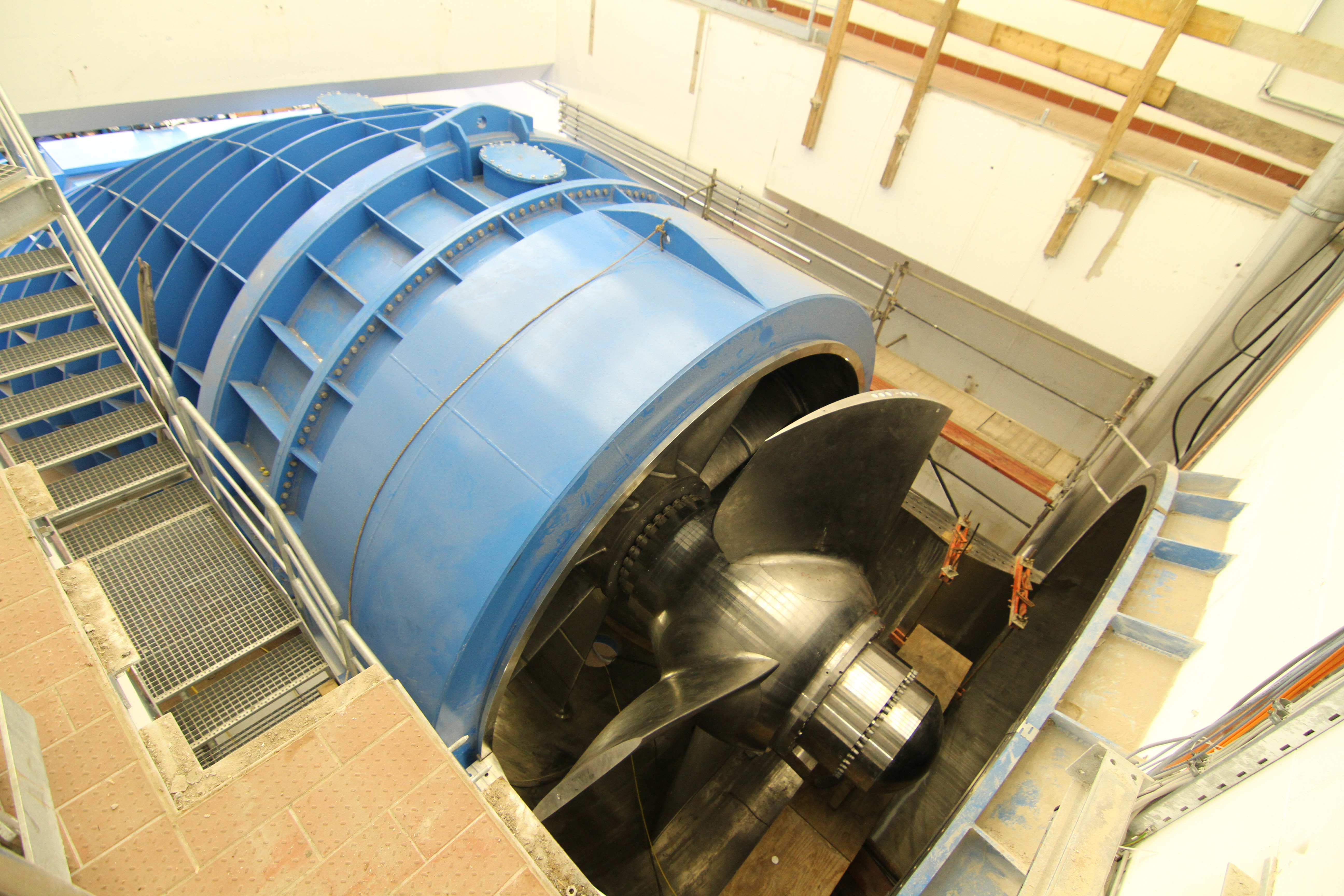 View in one opened S-tube of the hydroelectric power plant on the river Weser in Bremen, Germany, with the rotor blade of the installed turbine in the foreground and the the guide vane slightly covered in the background.